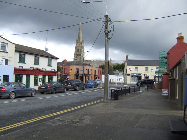 Arklow town centre A coastal town in County Wicklow now mercifully by-passed by the N11 Dublin to Wexford road.